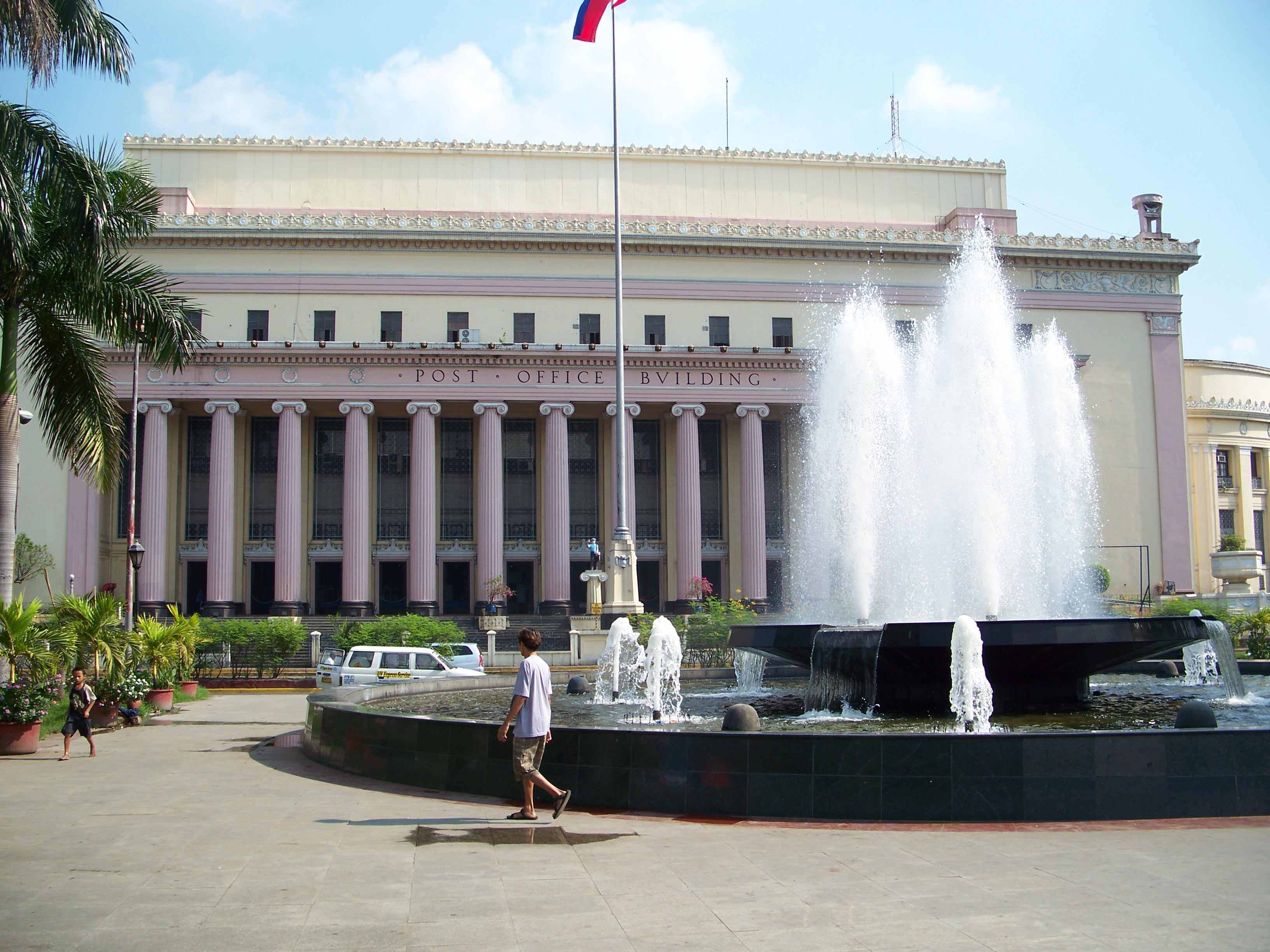 Manila Central Post Office, headquarter of the Philippine Postal Corporation (Philpost)